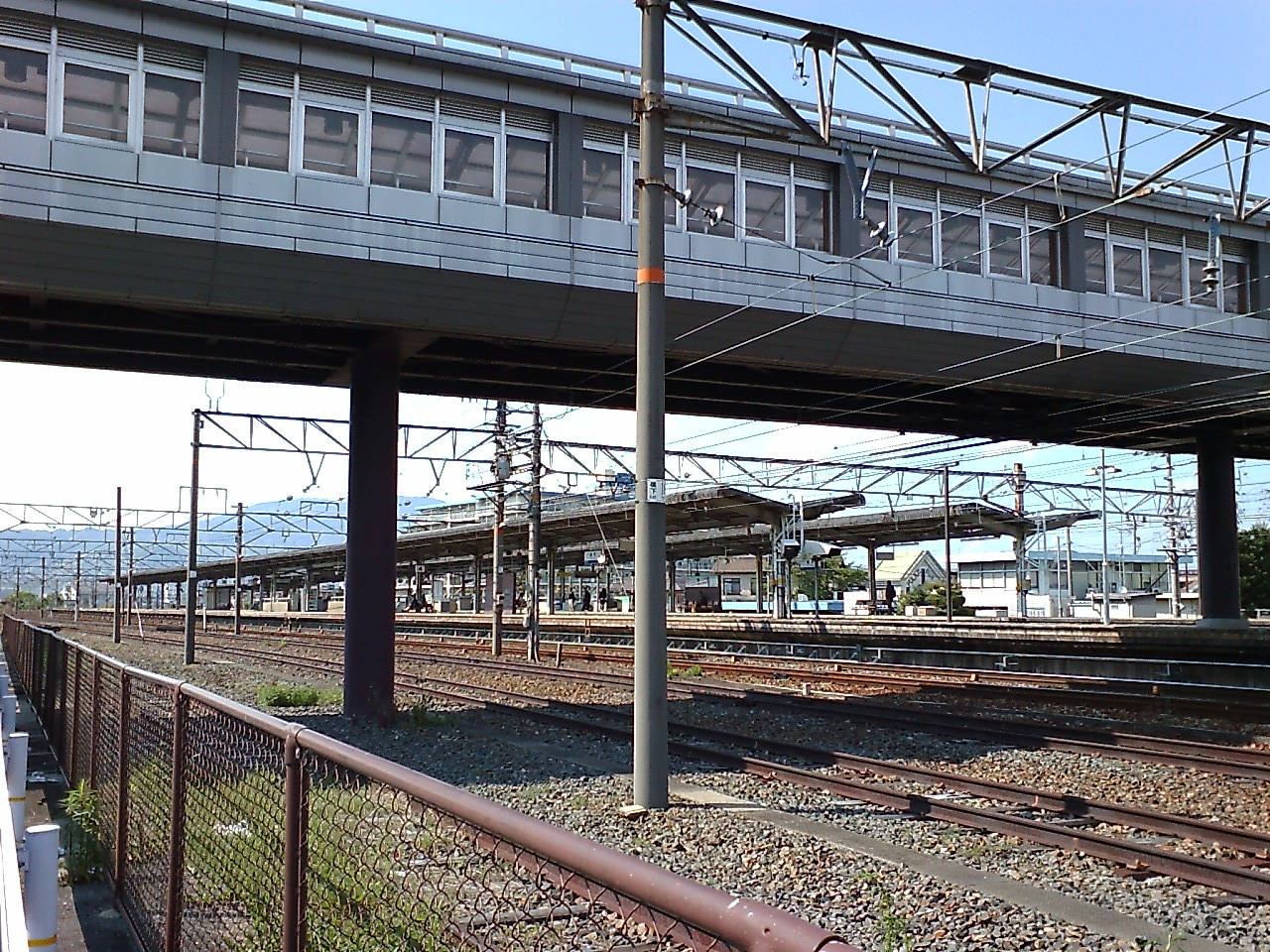 This photograph is whole view of JR Zeze Station.